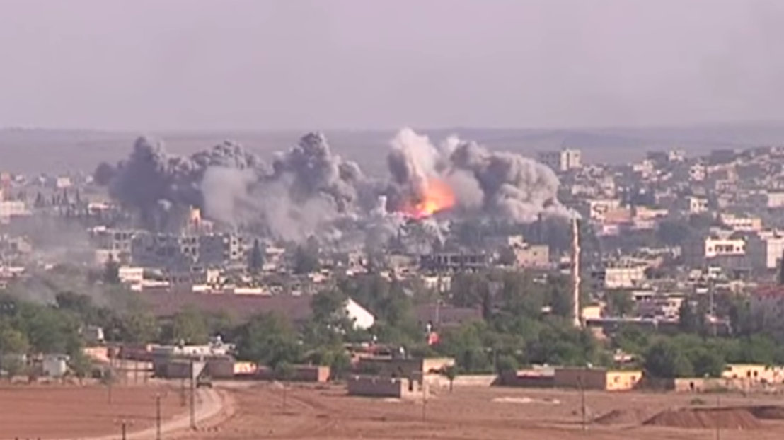 Coalition airstrike on ISIL position in Kobane on 22 October 2014.